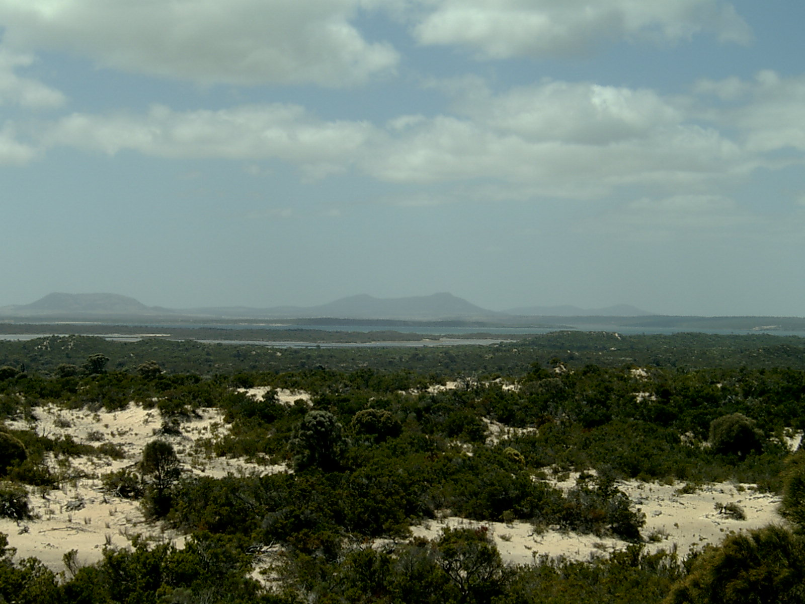 January 2007.